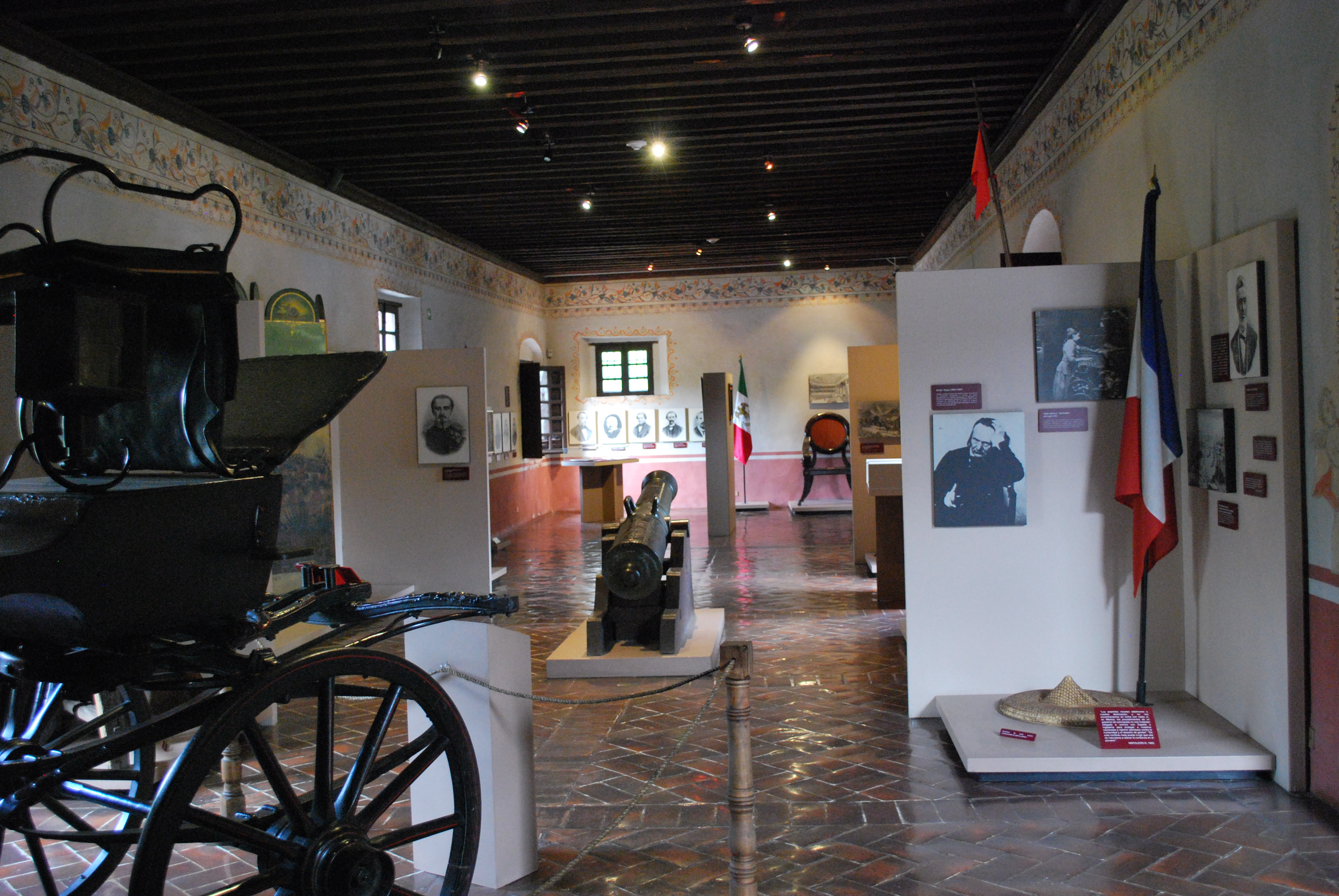 Overview of room dedicated to the French Intervention in Mexico at the Museo Nacional de las Intervenciones (ex Monastery of Churubusco) in Coyoacan borough, Mexico City